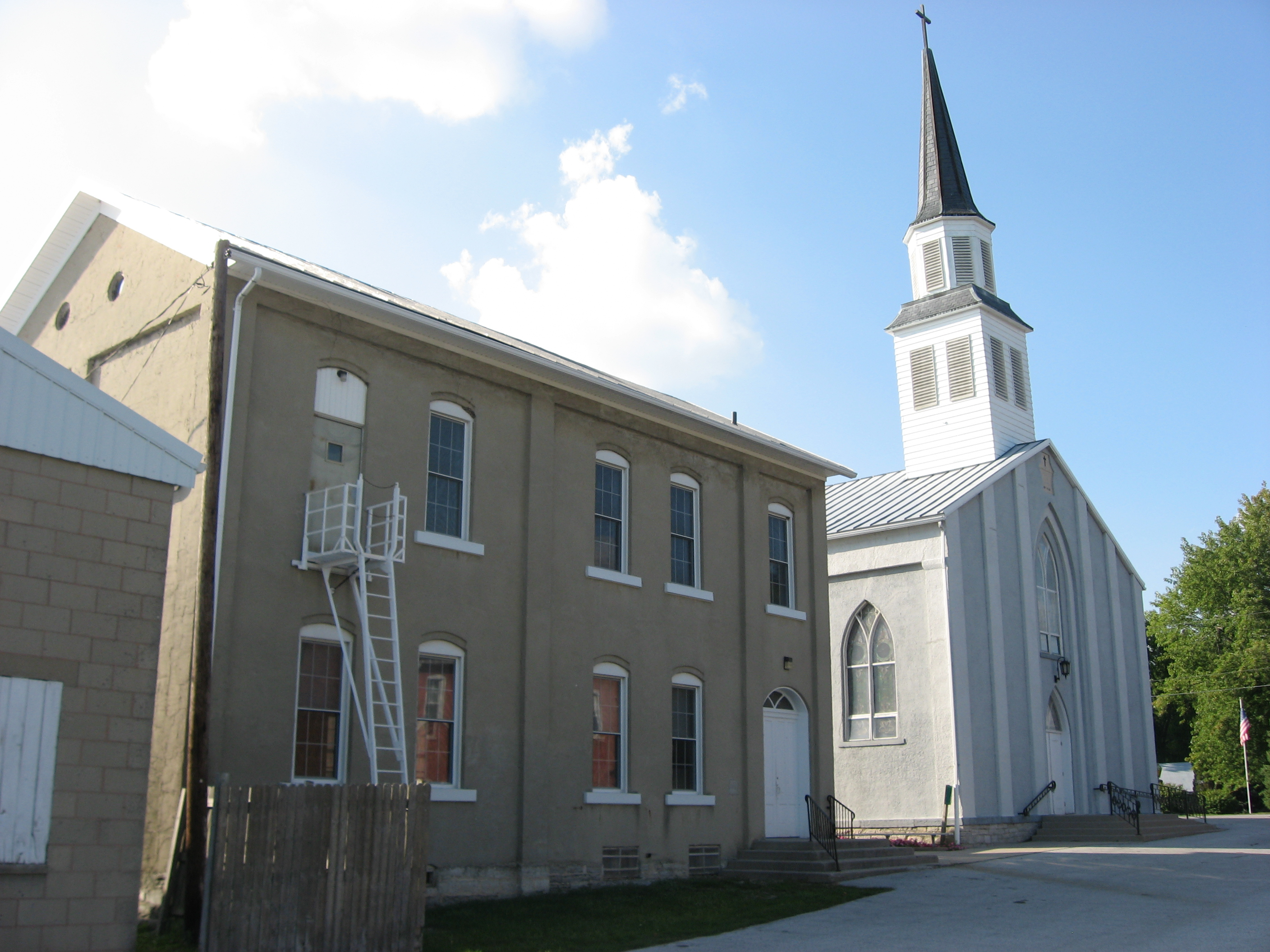 Front of St. John Catholic Church and Parish Hall, located along Van Buren Street in the community of Fryburg in Pusheta Township, Auglaize County, Ohio, United States. Built in 1850, the complex was listed on the National Register of Historic Places as a part of the Cross-Tipped Churches of Ohio Thematic Resources.